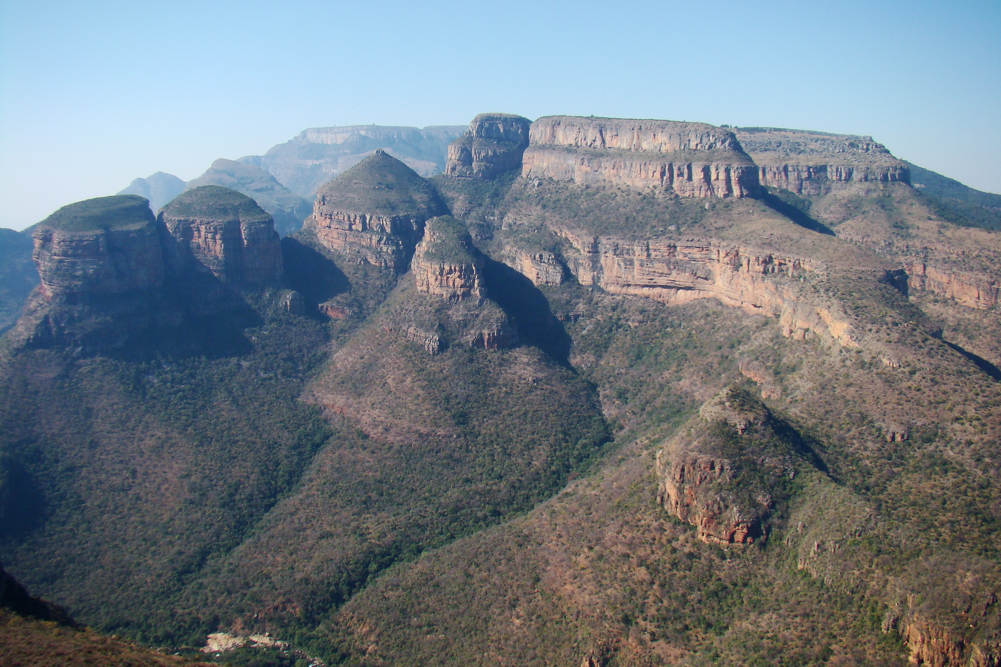 Blyde River Canyon - Three Rondavels and Mapjaneng, South Africa